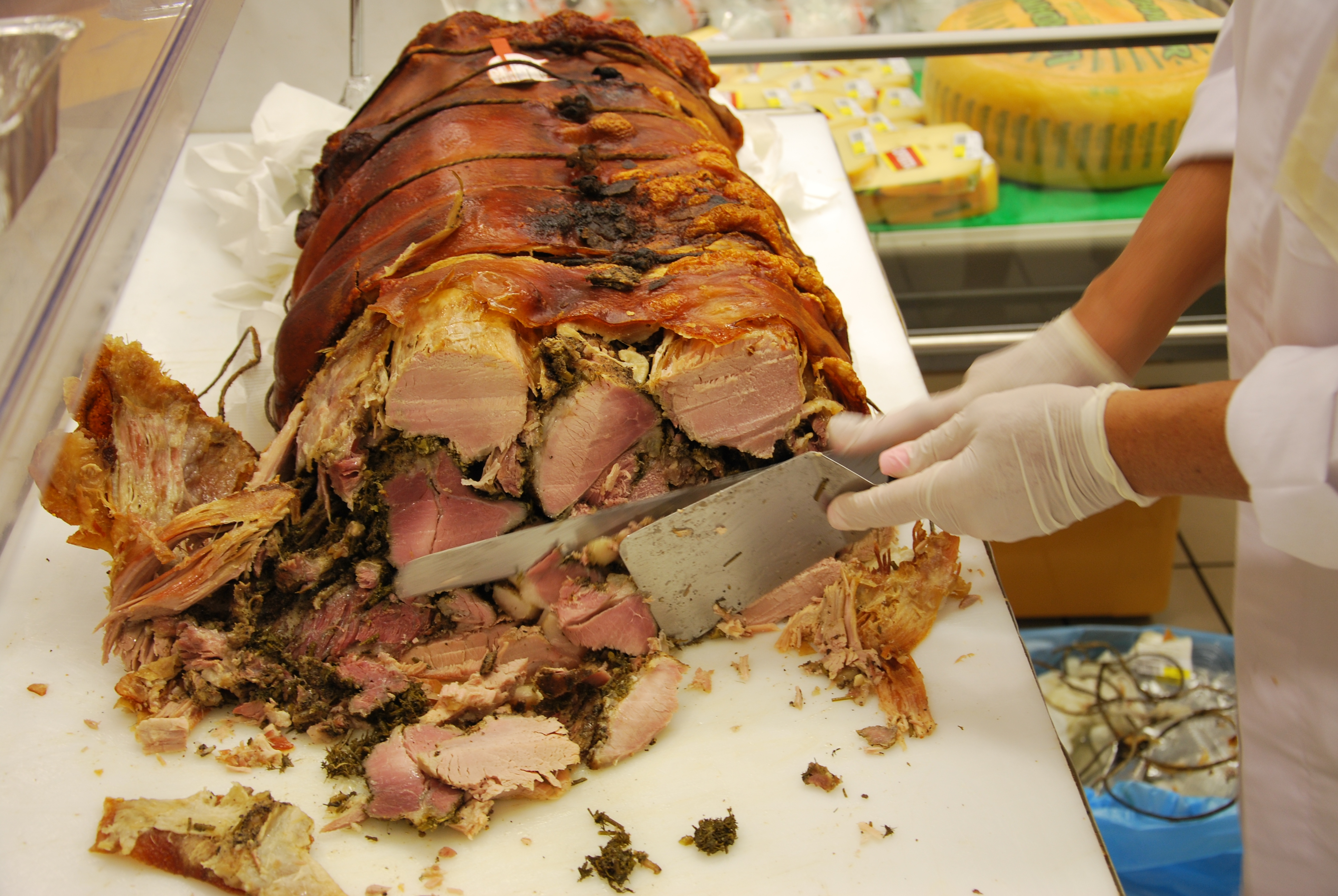 Porchetta in Macerata, Marche